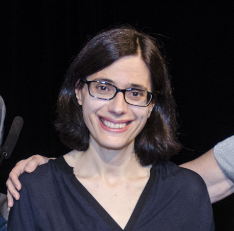 Alfonso Valencia, Aviv Regev and Bonnie Berger at ISMB 2017